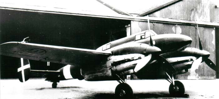 Italian IMAM Ro.58 fighter prototype